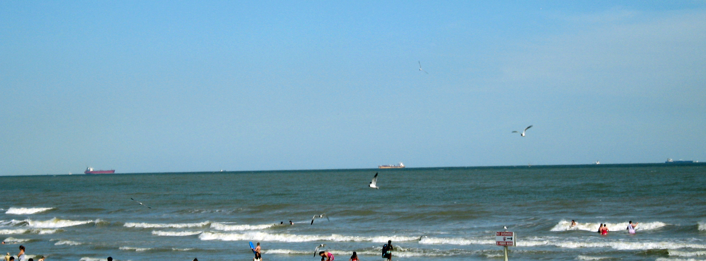 Offshore oil drilling visible from the seawall in Galveston, Texas. Taken on March 14, 2006 by Laura Scudder.